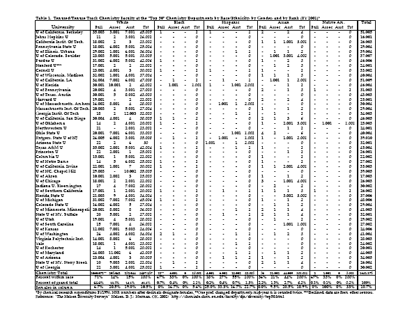 Nelson Diversity Surveys table